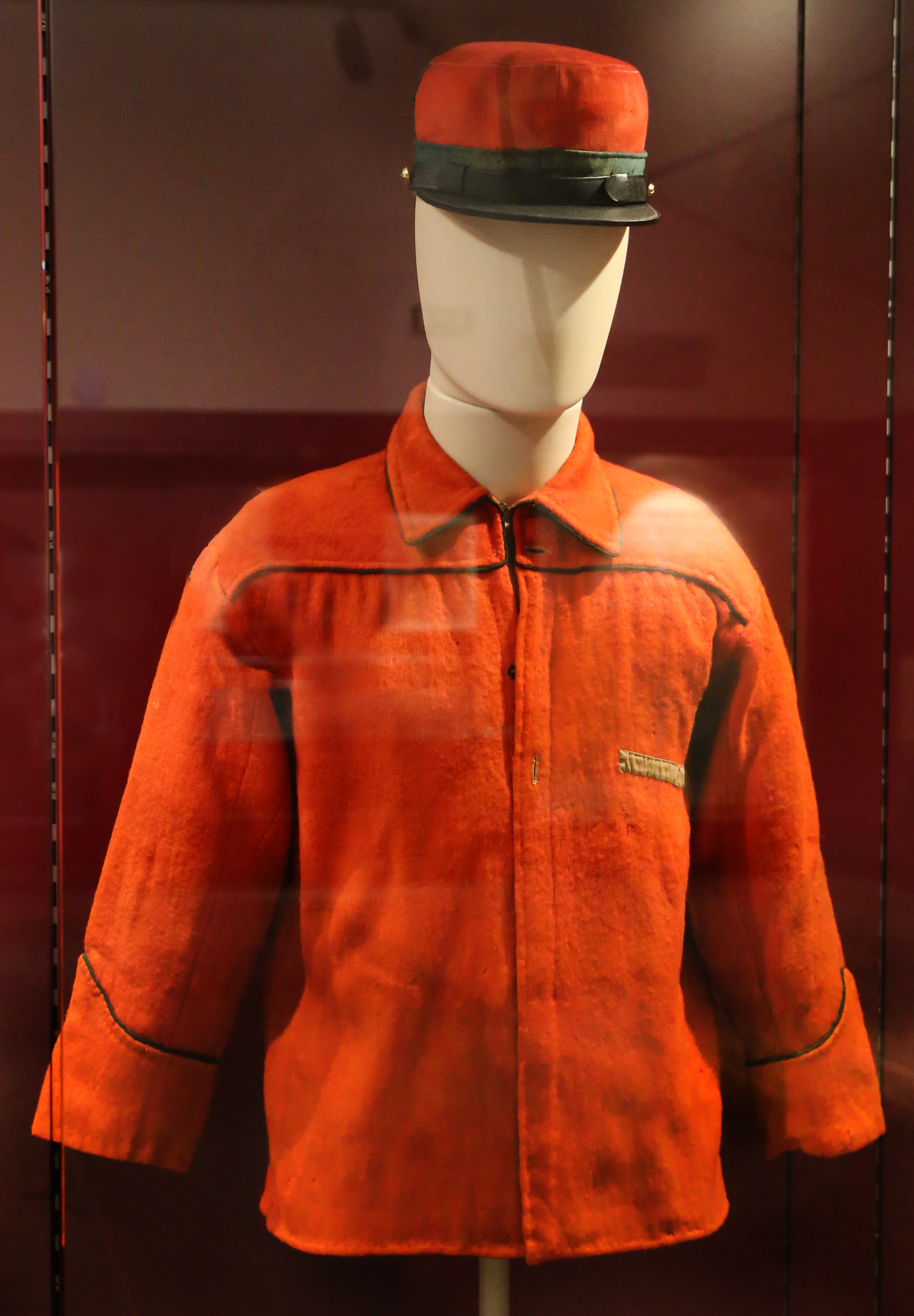 Collections of the Museo della città (Livorno)